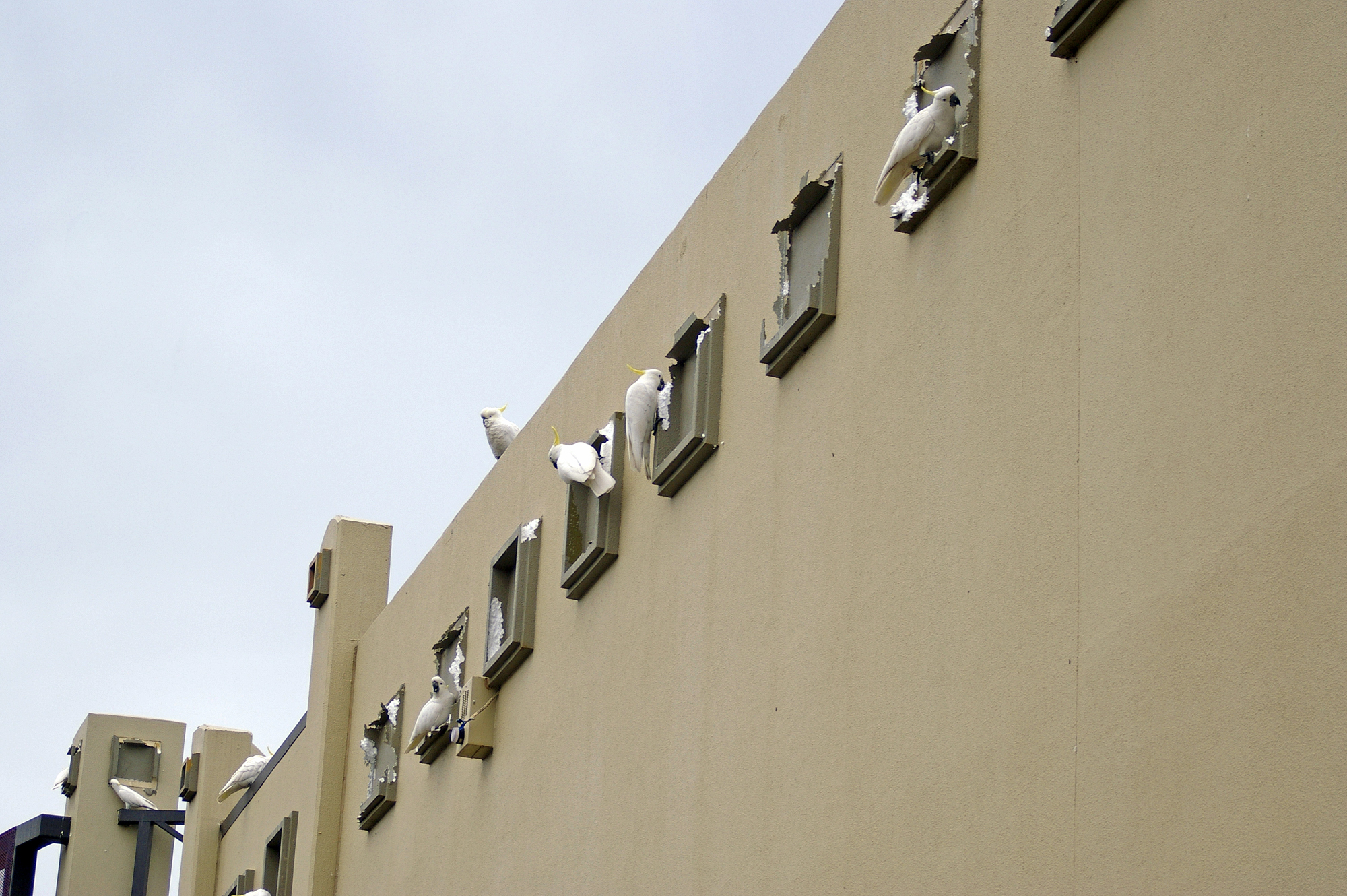 Sulphur-crested Cockatoos damaging the Sturt Mall shopping centre facade, made from Polystyrene and painted over with exterior paint.